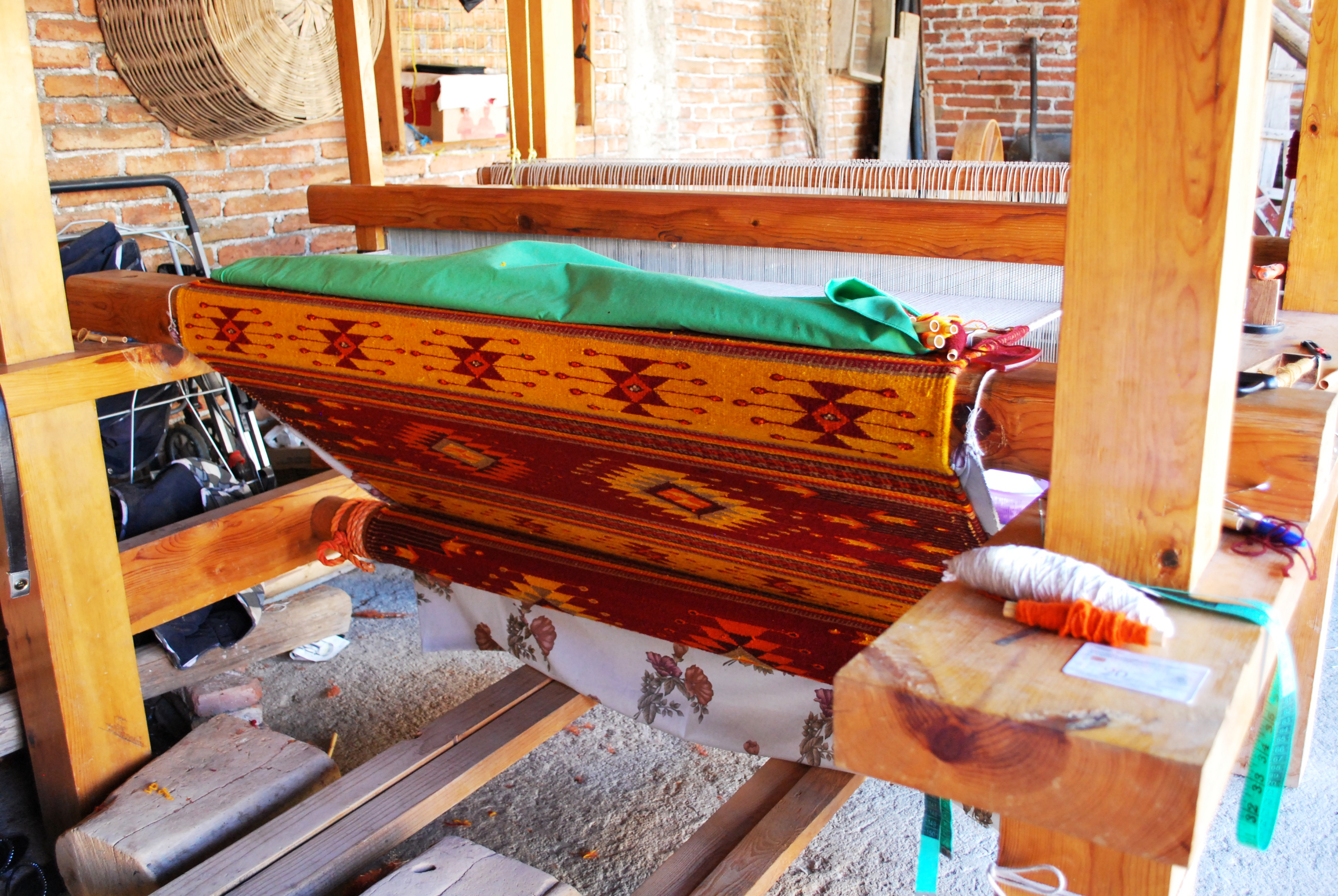 Large rug in progress at a family shop in Teotitlan del Valle, Oaxaca, Mexico